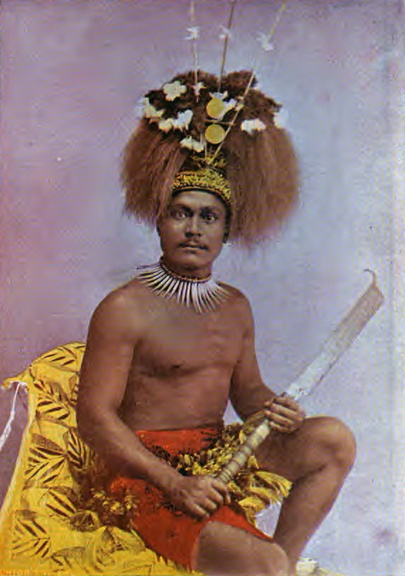 Samoan man in costume with headress 1896